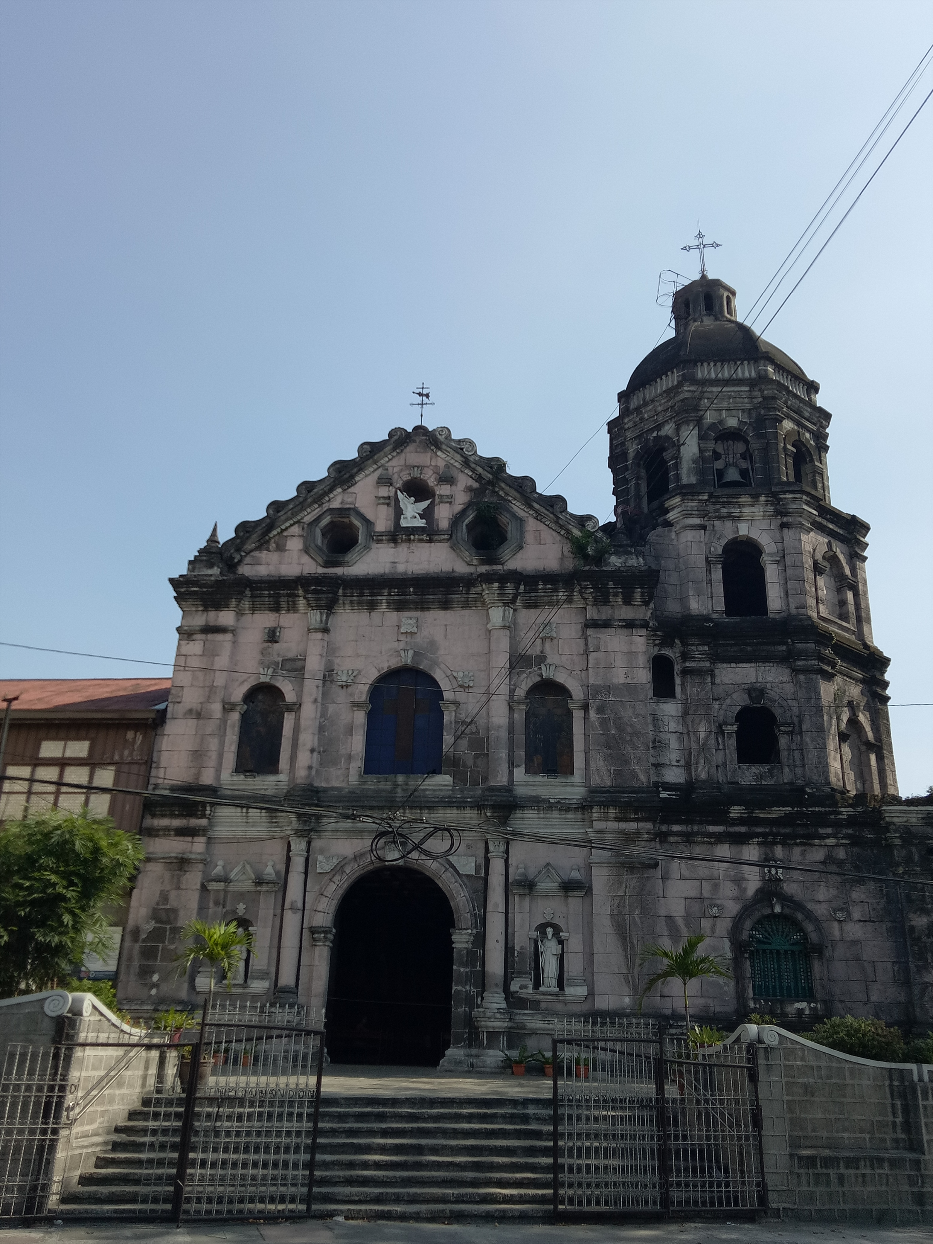 Restored facade of Santa Ana Church in Santa Ana, Manila from New Panaderos Street